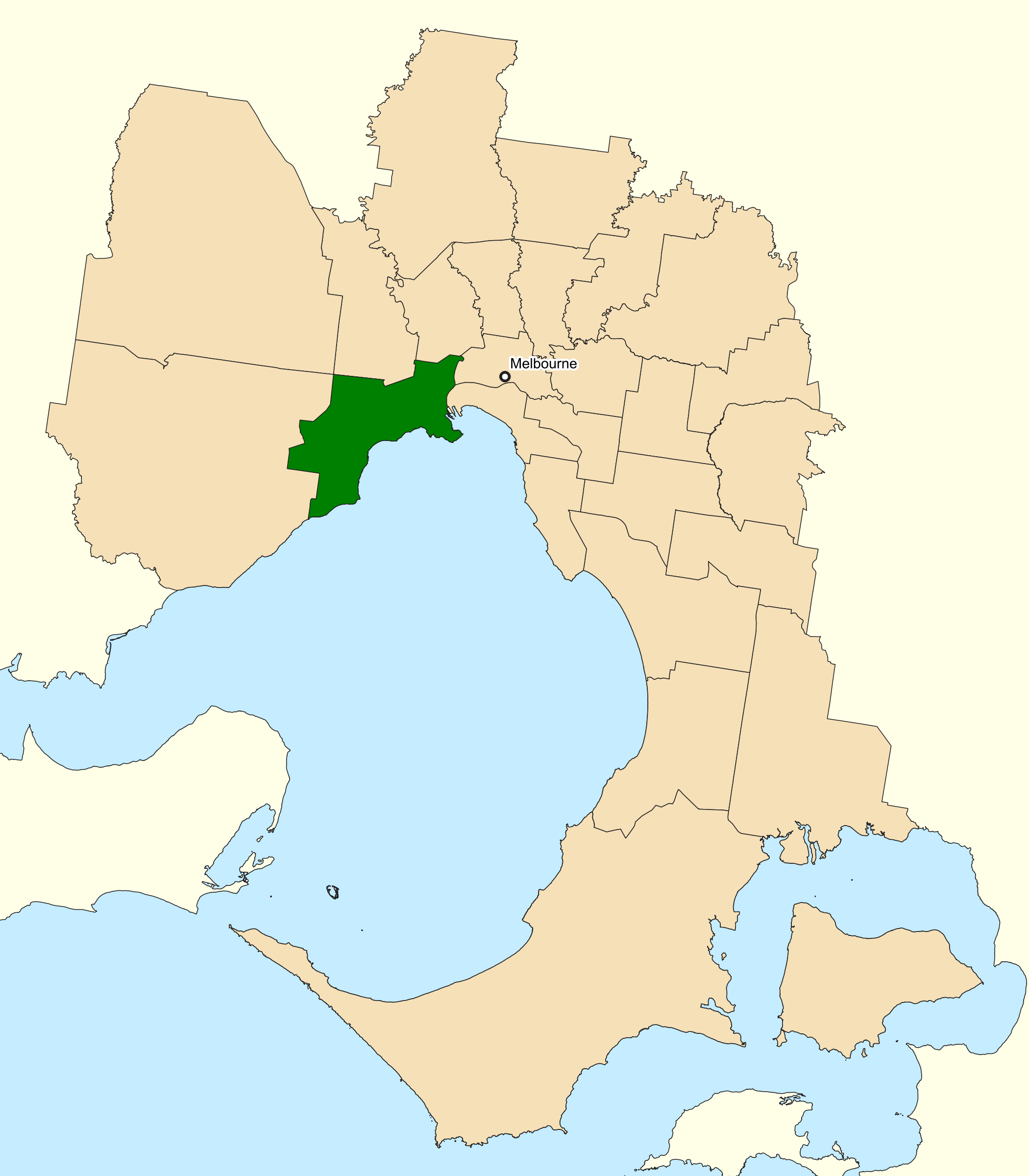 Location of the Australian federal electoral division of Gellibrand (dark green) in Greater Melbourne, Victoria as of the 2019 Australian federal election. Incorporates or developed using Administrative Boundaries ©PSMA Australia Limited licensed by the Commonwealth of Australia under Creative Commons Attribution 4.0 International licence (CC BY 4.0).